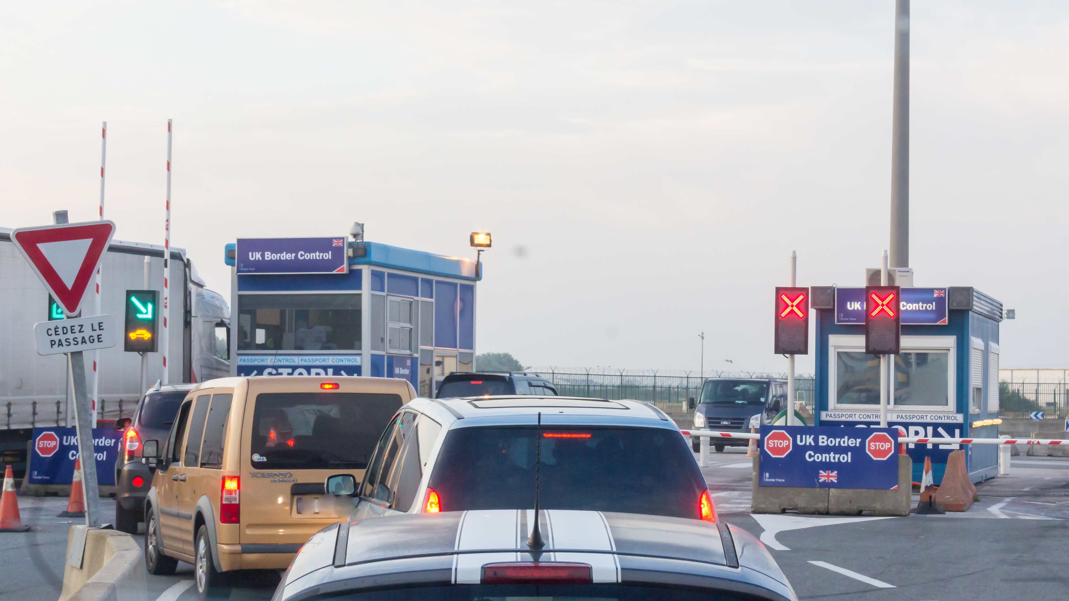 UK border control in the ferry area of the Port of Dunkerque